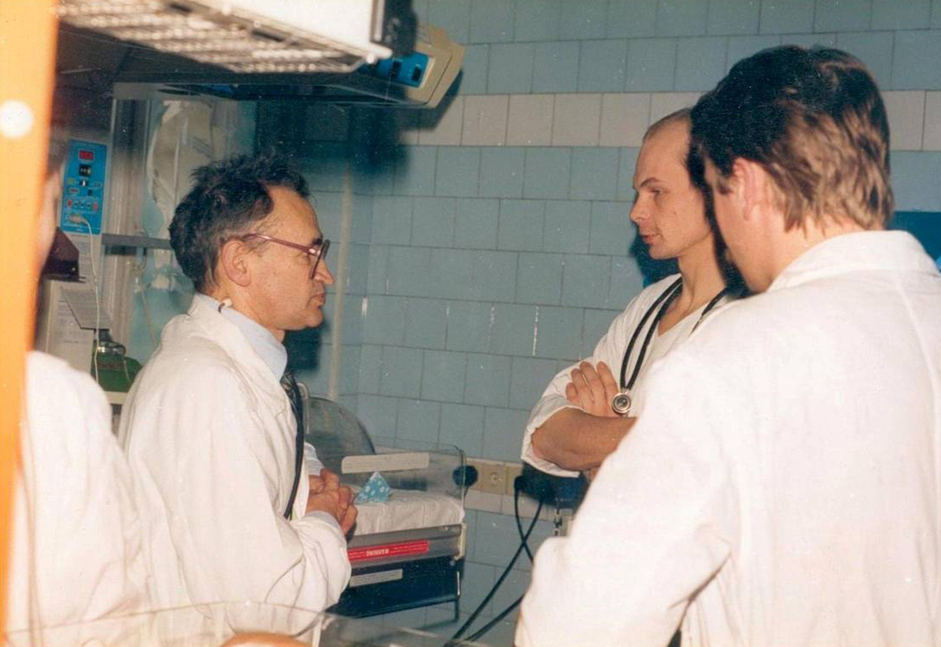 Tsybulkin Eduard. Professor of Medicine